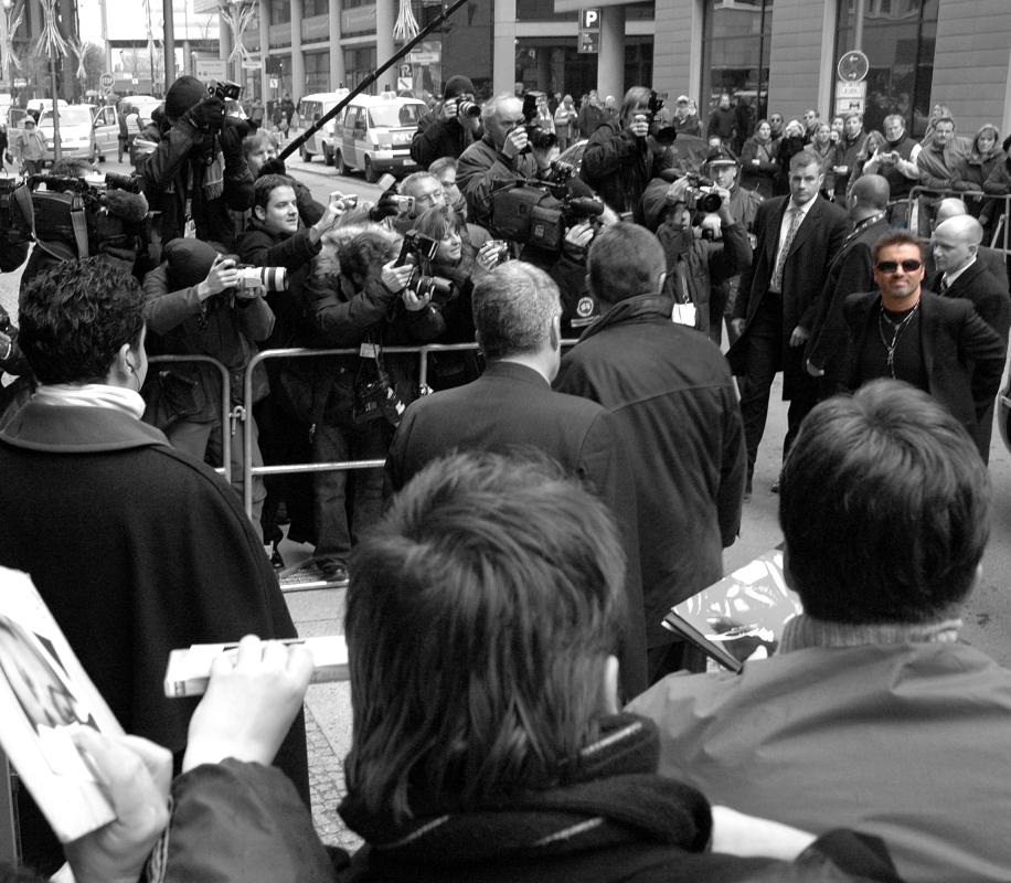 George Michael at the 55th Berlin International Film Festival, in 2005. The singer is going to the press conference for Southan Morris' George Michael: A Different Story.